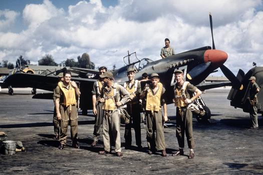 USAAF pilots of a training unit in Louisiana (USA) in front of a North American P-51A Mustang fighter in 1943.